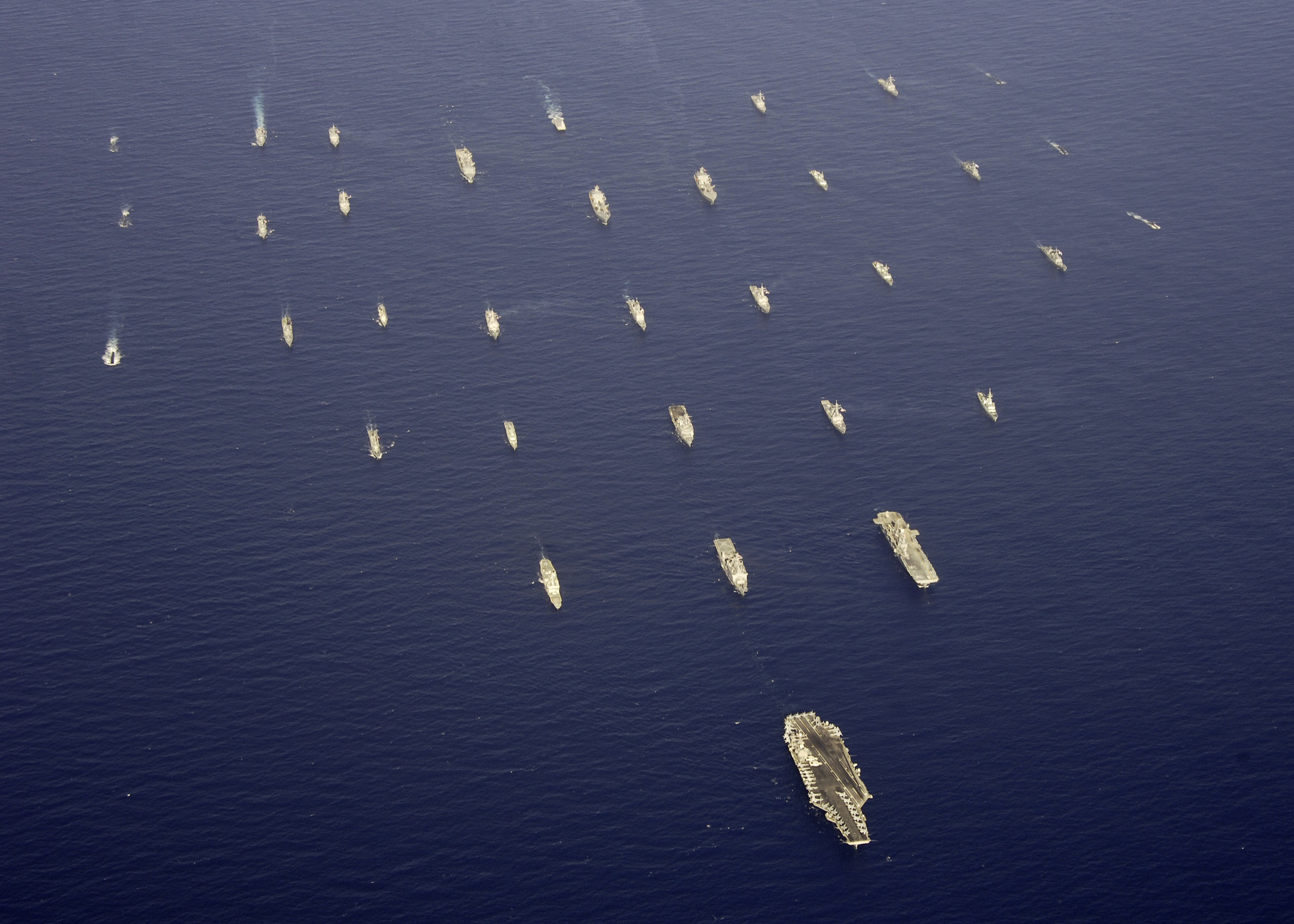 The Nimitz-class aircraft carrier USS Abraham Lincoln (CVN-72) leads a formation of ships and submarines from the U.S. Navy as well as the Navies of the seven other nations which participated in the 2006 Rim of the Pacific (RIMPAC) exercise. To commemorate the last day of RIMPAC, participating countries' naval vessels fell into ranks for a photo exercise.